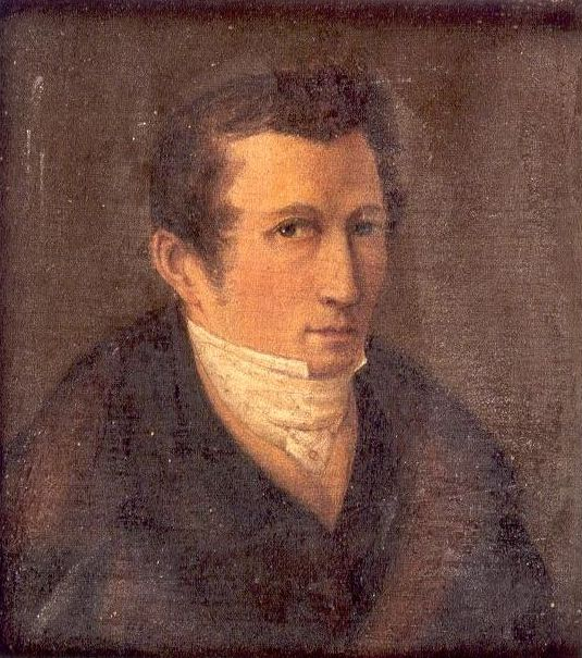 Oil painting, Ludwig Ferdinand Hesse (1795-1876), architect in Potsdam